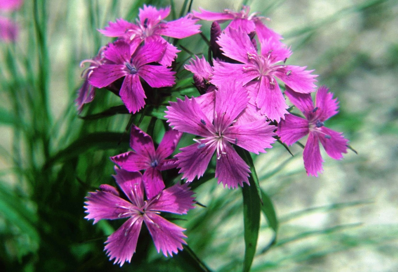 Dianthus shinanensis seen in Mount Eboshi